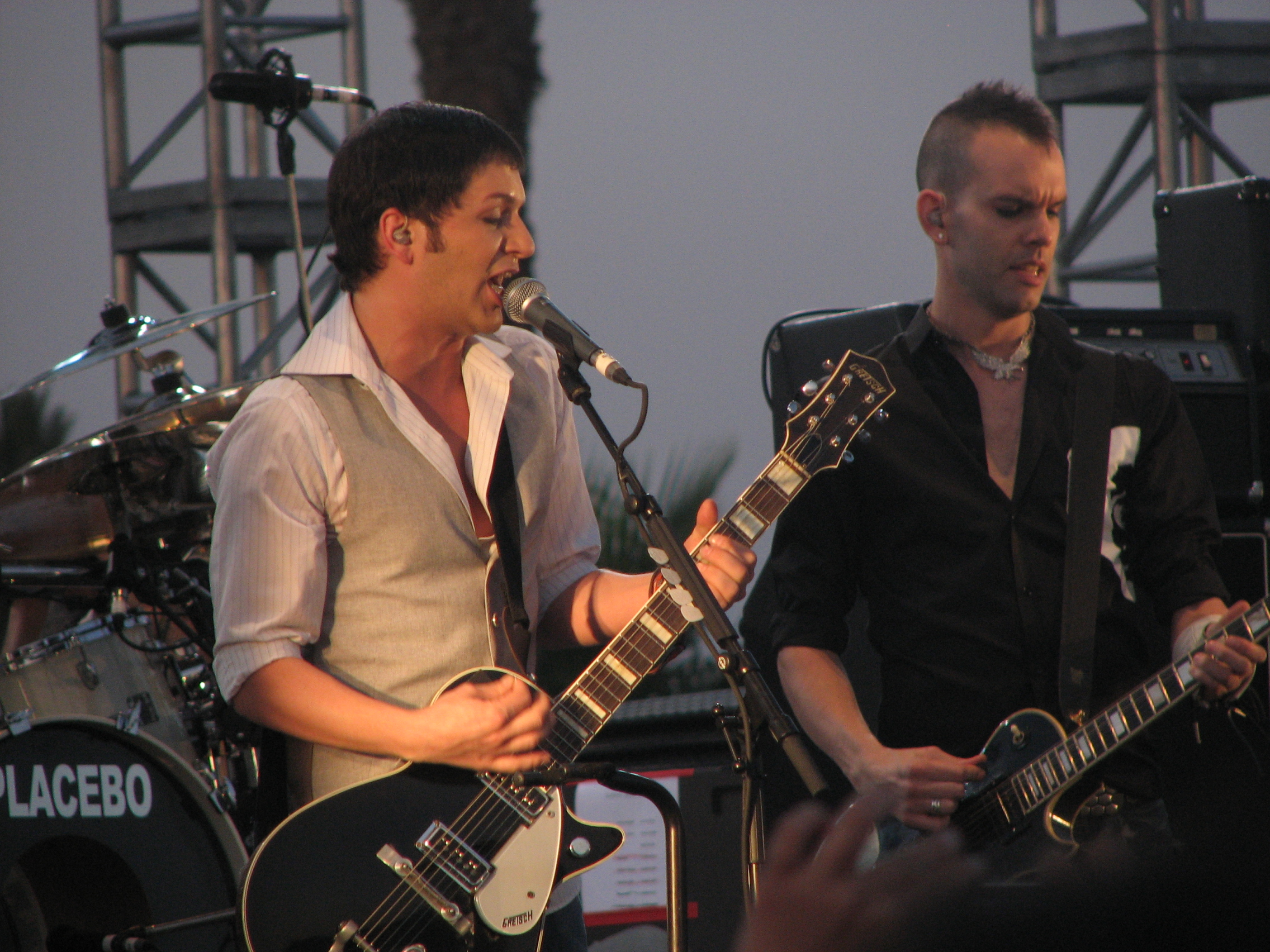 2 members of Placebo - Coachella Festival